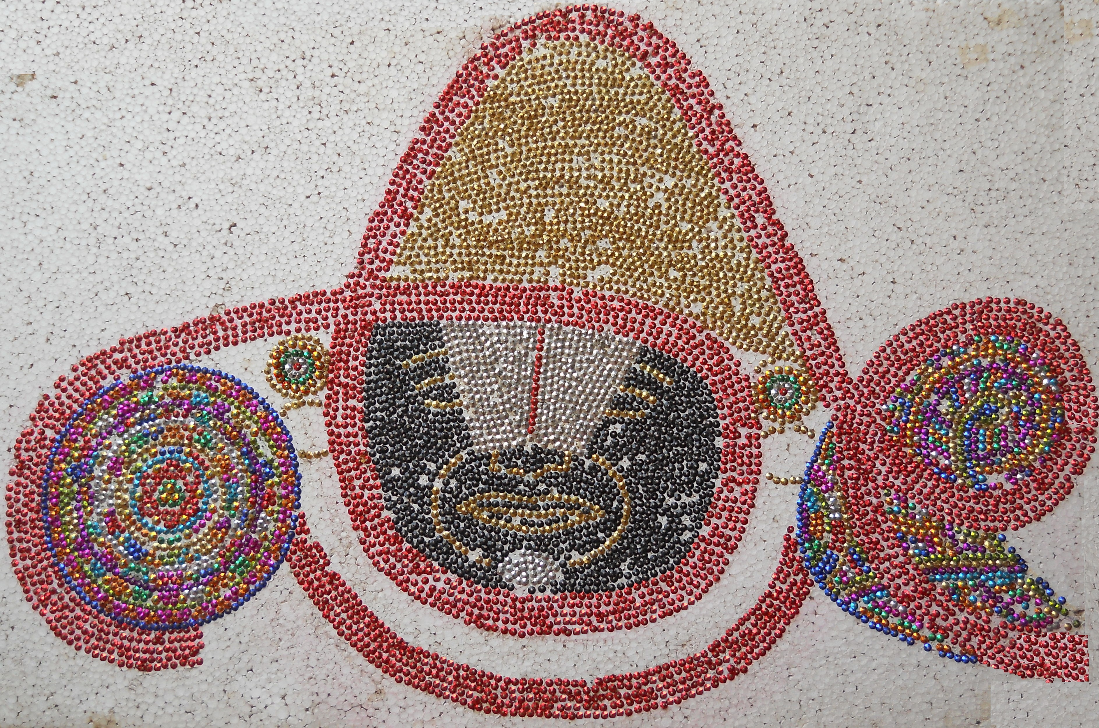 Sri Venkateswara in Telugu Sri art by YVSREDDY